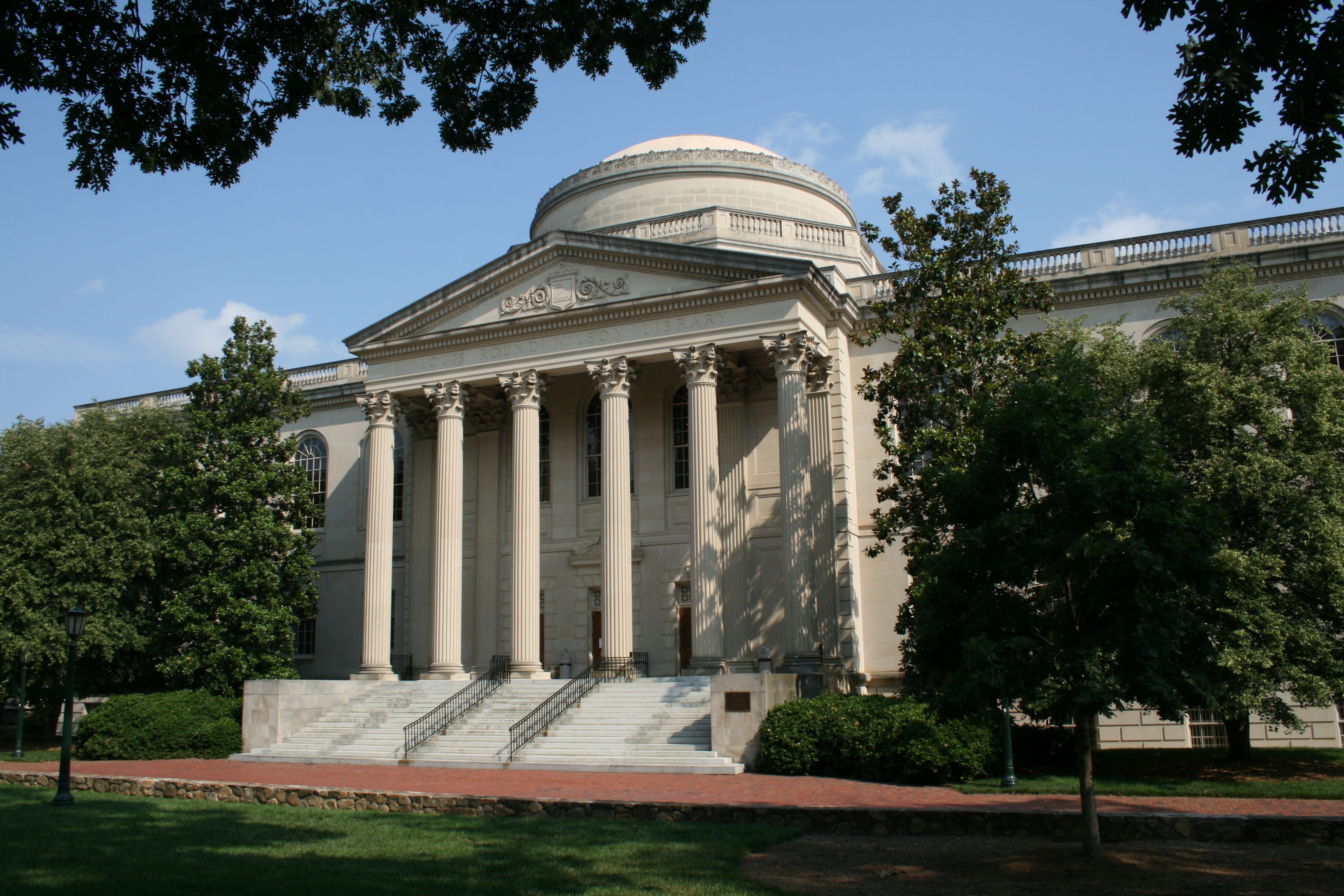 Louis Round Wilson Library at the University of North Carolina at Chapel Hill.